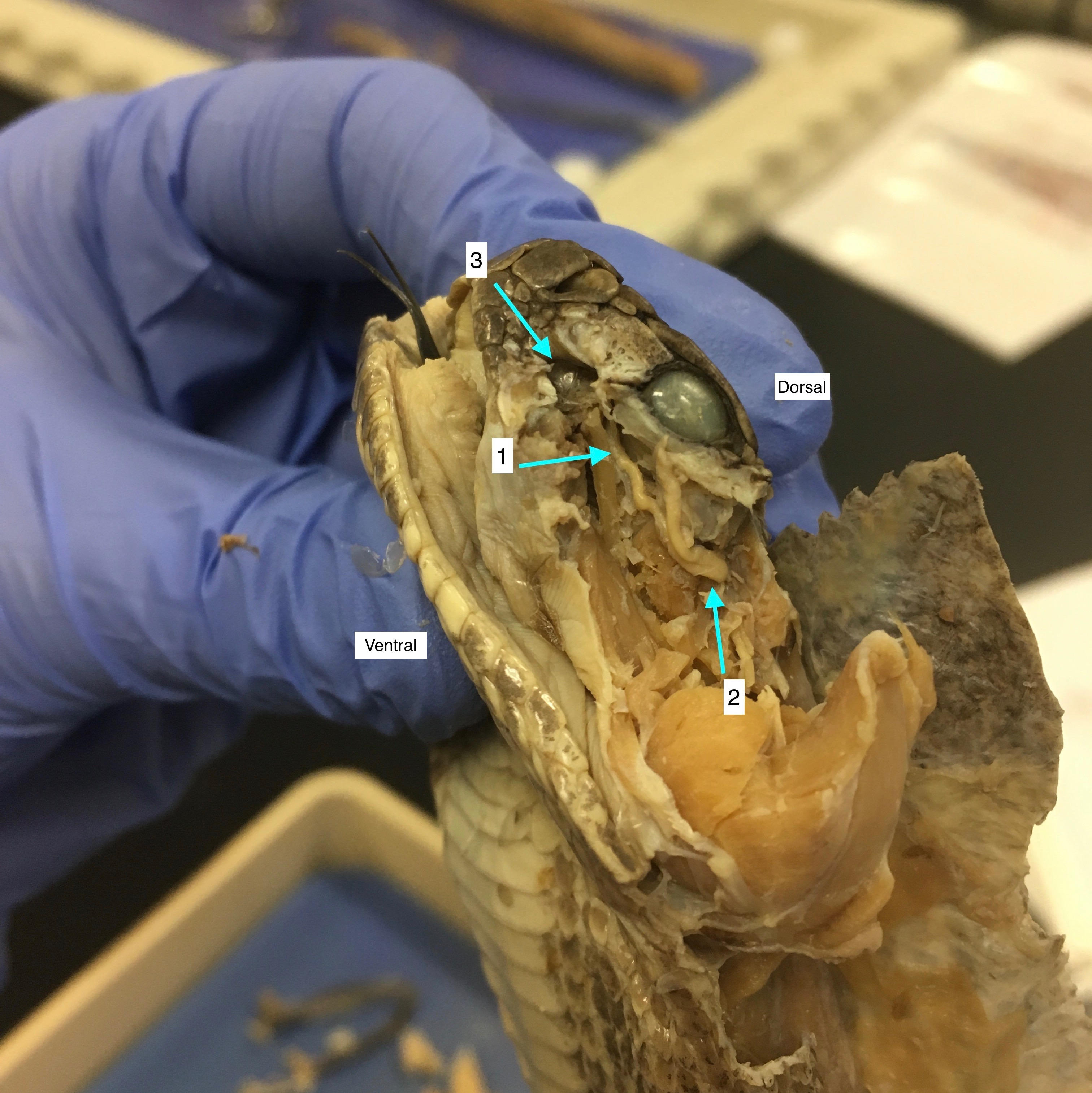 Rattlesnake trigeminal nerve, Pacific Lutheran University